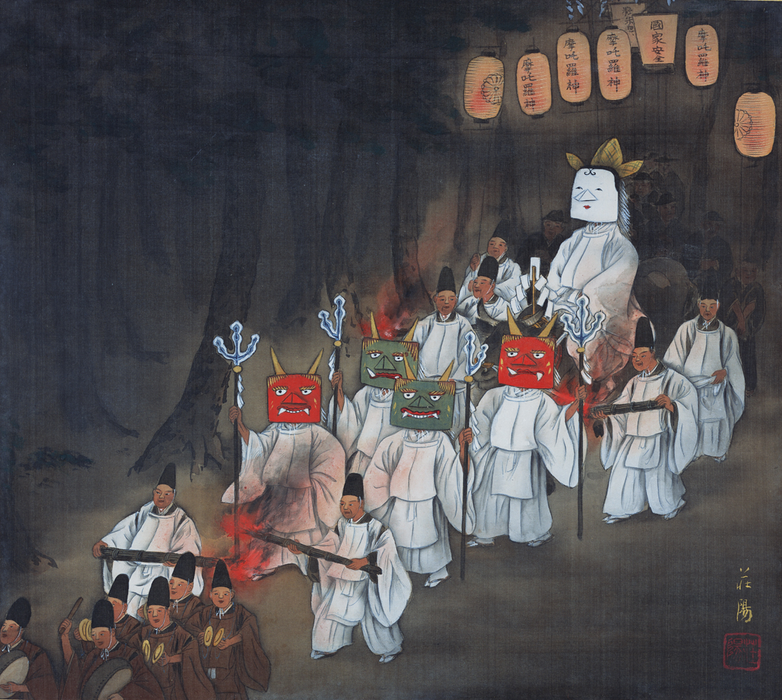 Ushimatsuri, festival of Koryuji, Kyoto city Japan